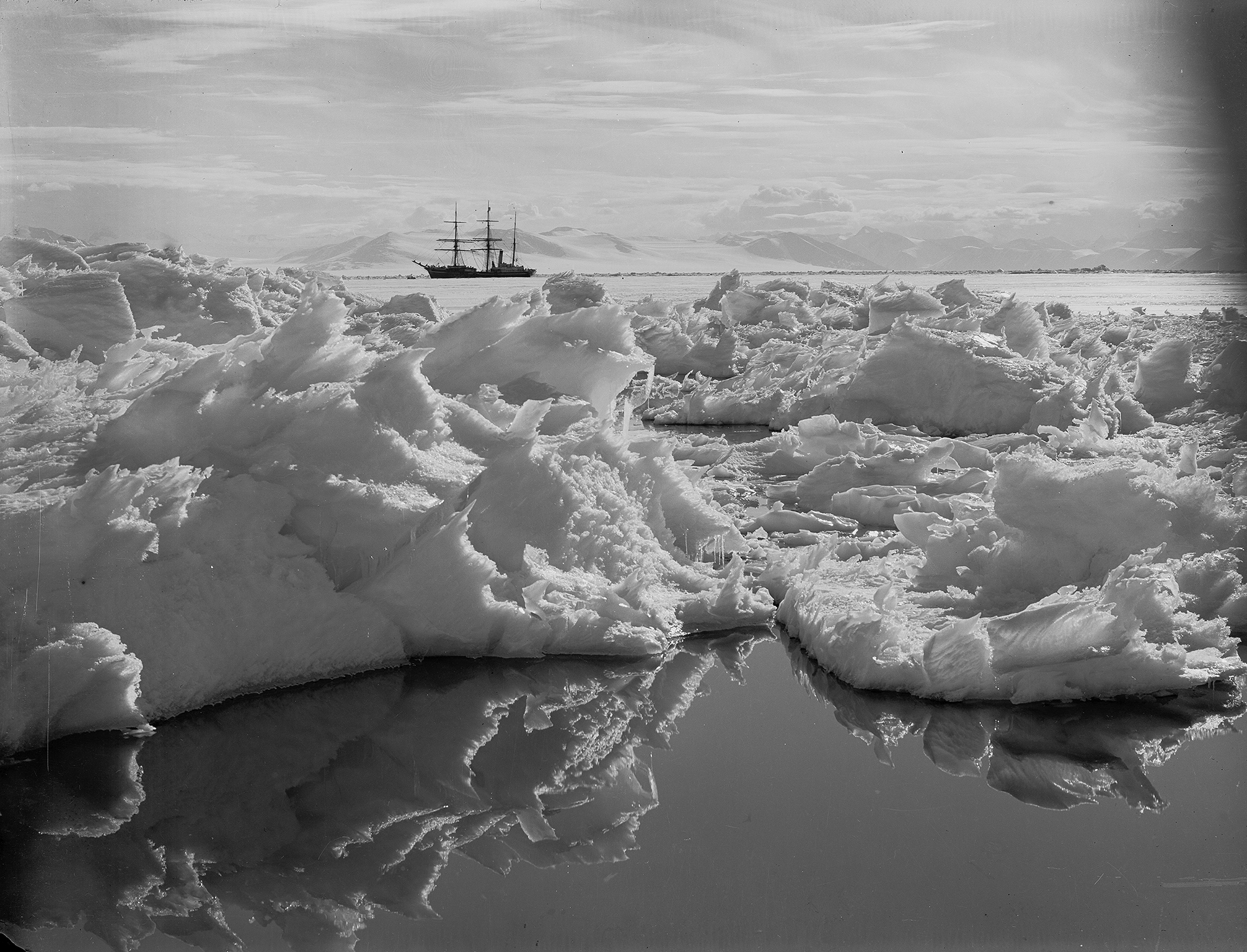 British Antarctic Expedition 1910-13. "Beautiful broken ice, reflections and Terra Nova. Jan. 7th 1911."